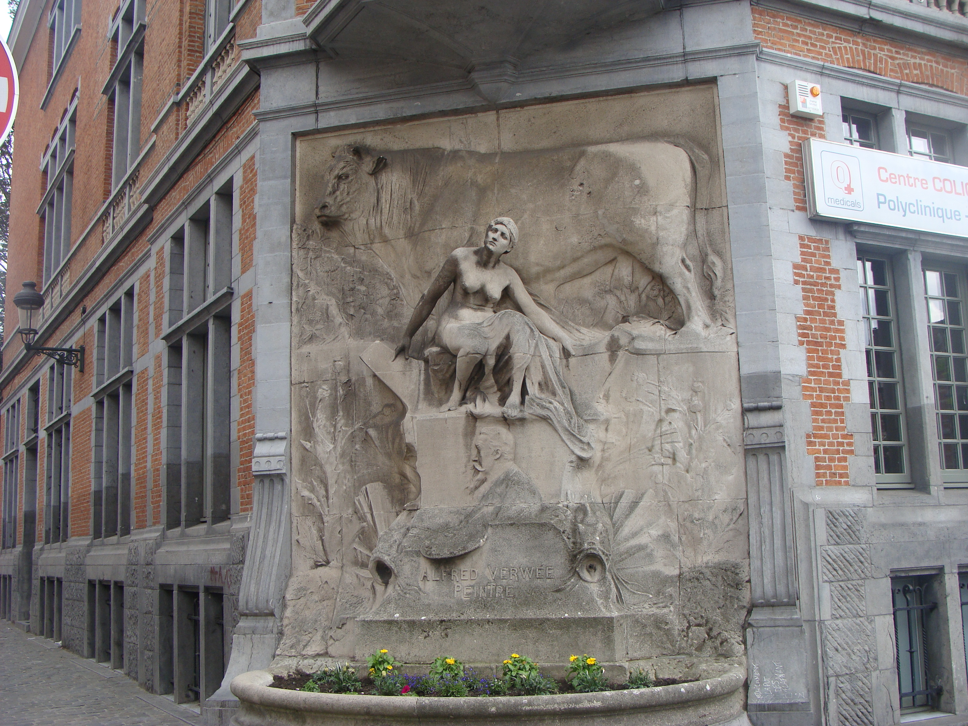 Van Der Stappen - Monument Alfred Verwee, Brussels